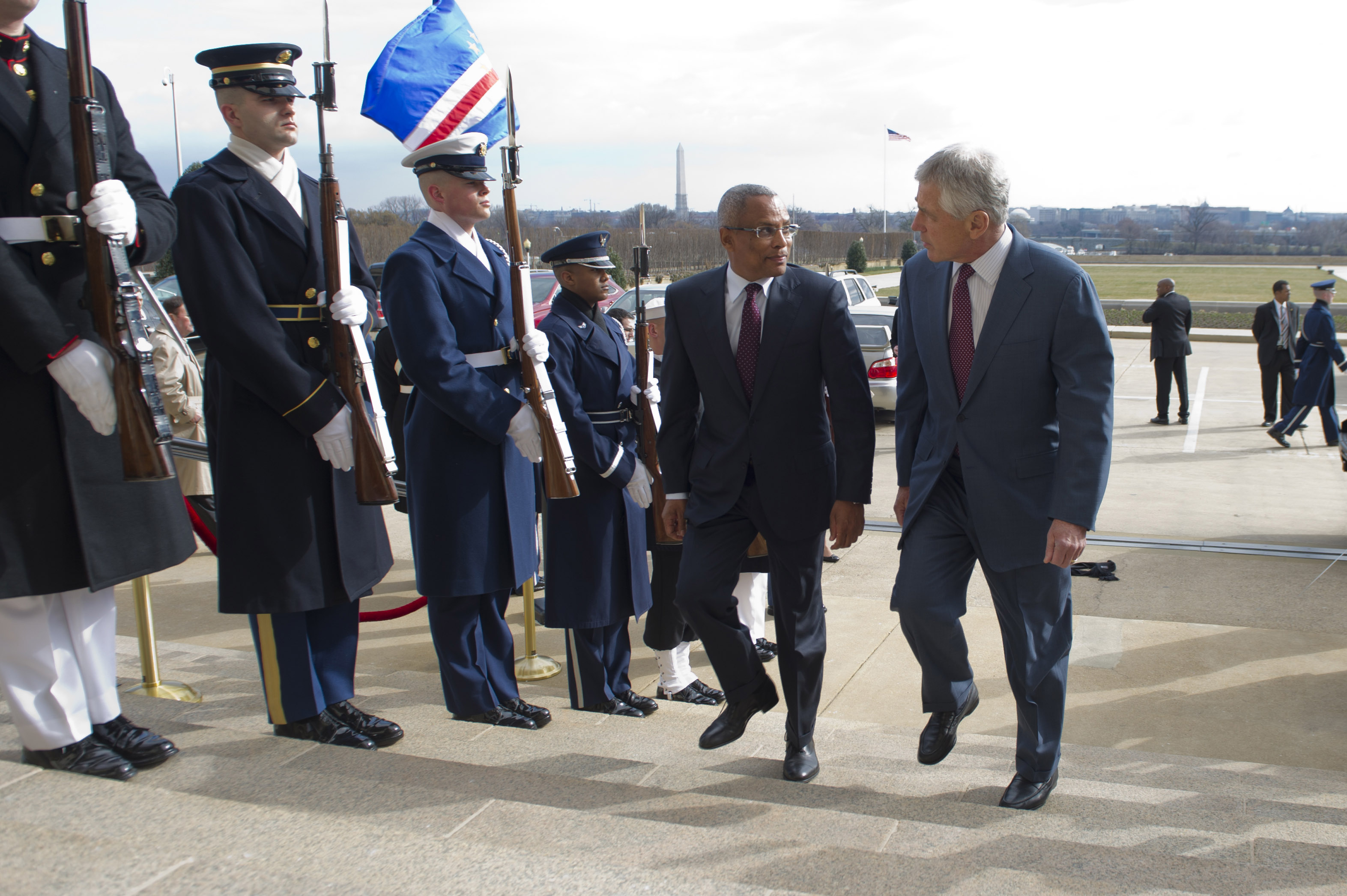 Secretary of Defense Chuck Hagel, right, escorts Cape Verde Prime Minister Jose Maria Neves through an honor cordon and into the Pentagon on March 28, 2013. Hagel also welcomed Sierra Leone President Bai Koroma and President of Malawi Joyce Banda for joint meetings.